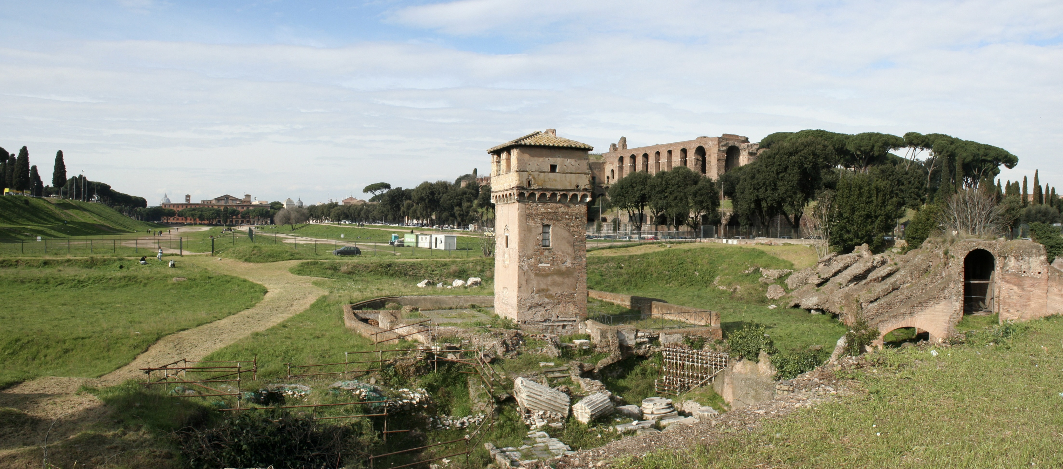 Wide view of Circus Maximus, Rome, Italy. Panorama created by stitching 2 images together (2010-02-01)